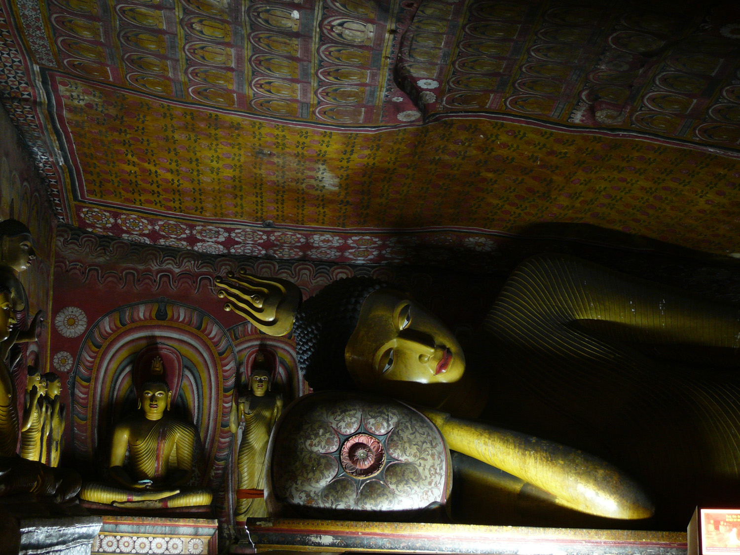 Image of a reclining Buddha, in Dambulla complex of cave monasteries. Sri Lanka.